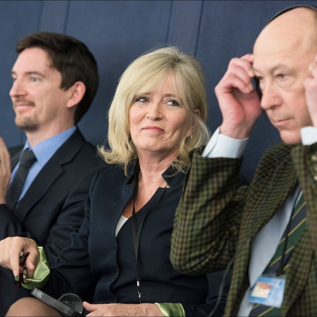 On Wednesday, Emily O’Reilly (Ireland) was elected European Ombudsman for the 2019-2024 parliamentary term. She was backed by 320 MEPs in a secret plenary vote. The Ombudsman conducts inquiries into cases of maladministration by EU institutions, bodies, offices and agencies, acting on their own initiative or on the basis of complaints from EU citizens. Emily O’Reilly was elected in three rounds of voting. O’Reilly is a former journalist and served as the first female Irish Ombudsman for ten years prior to being elected European Ombudsman in 2013. This photo is free to use under Creative Commons license CC-BY-4.0 and must be credited: "CC-BY-4.0: © European Union 2019 – Source: EP". No model release form if applicable. For bigger HR files please contact: webcom-flickr(AT)